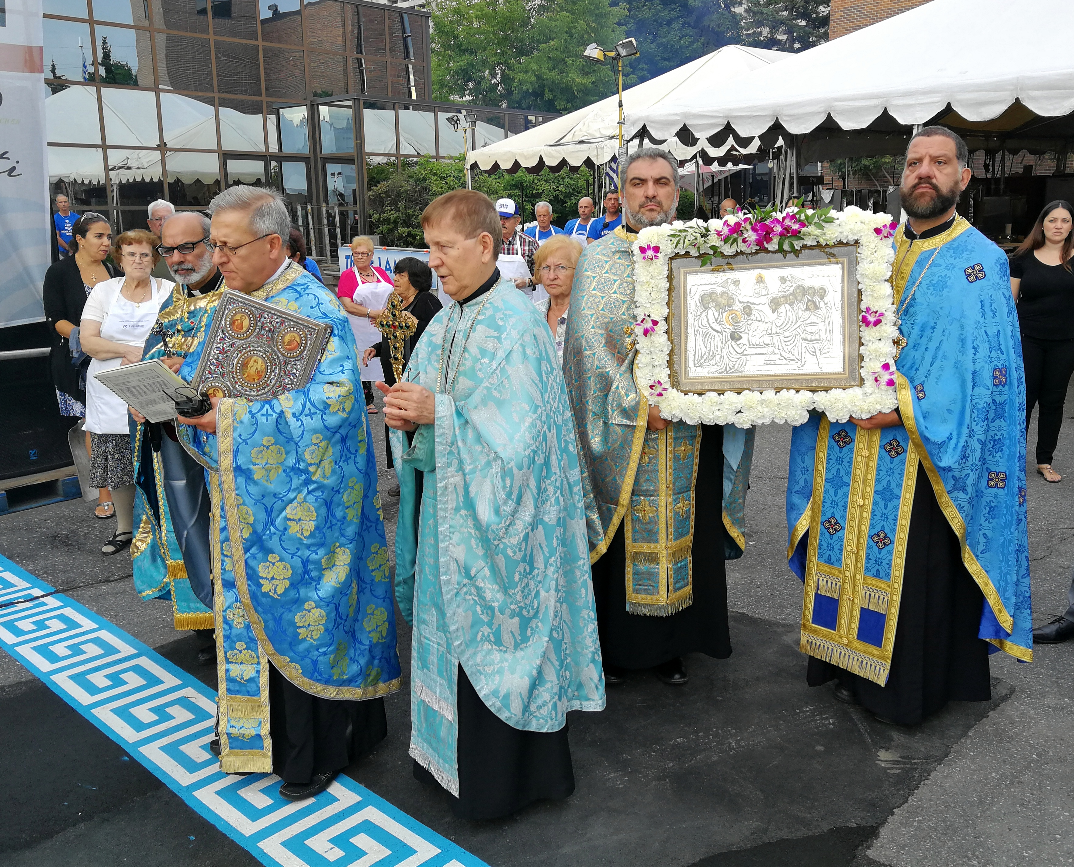 Greek Orthodox and Romanian Orthodox priests in procession with the Epitaphios of the Theotokos, during the Great Vespers of the Dormition of the Virgin Mary. Dormition of the Virgin Mary Greek Orthodox Church, Ottawa, Ontario, Canada.